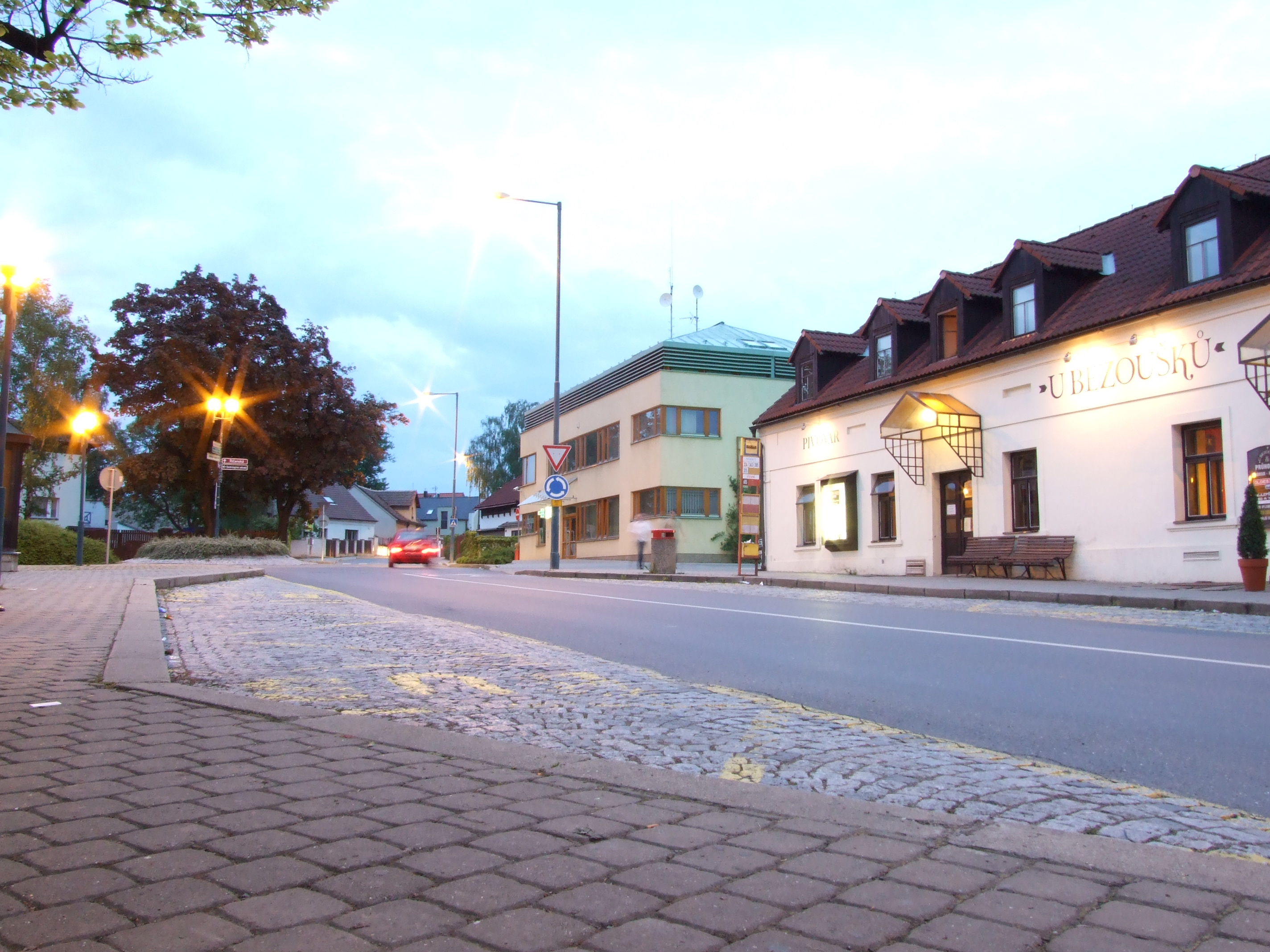 Village Průhonice, really close to Praguehelp